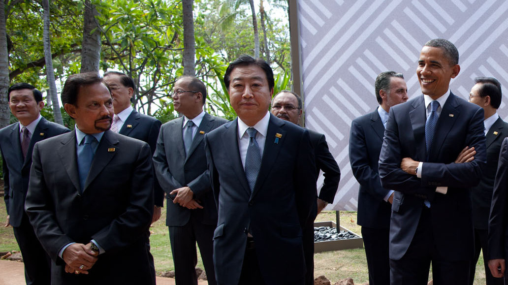 Hassanal Bolkiah, Sultan, Yoshihiko Noda, Prime Minister, Barack Obama, President, Dmitry Medvedev, President, Julia Gillard, Prime Minister, and Stephen Harper, Prime Minister, waited to move to the site of the official family photo at the Asia-Pacific Economic Cooperation summit in Honolulu County, Hawaii State on November 13, 2011.